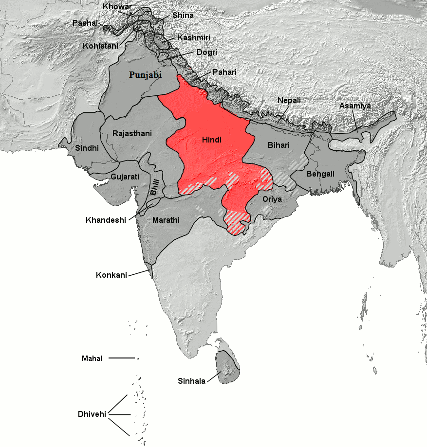 Area where Hindi is spoken natively (Hindi in the mid-narrow sense of East Hindi and West Hindi dialects)